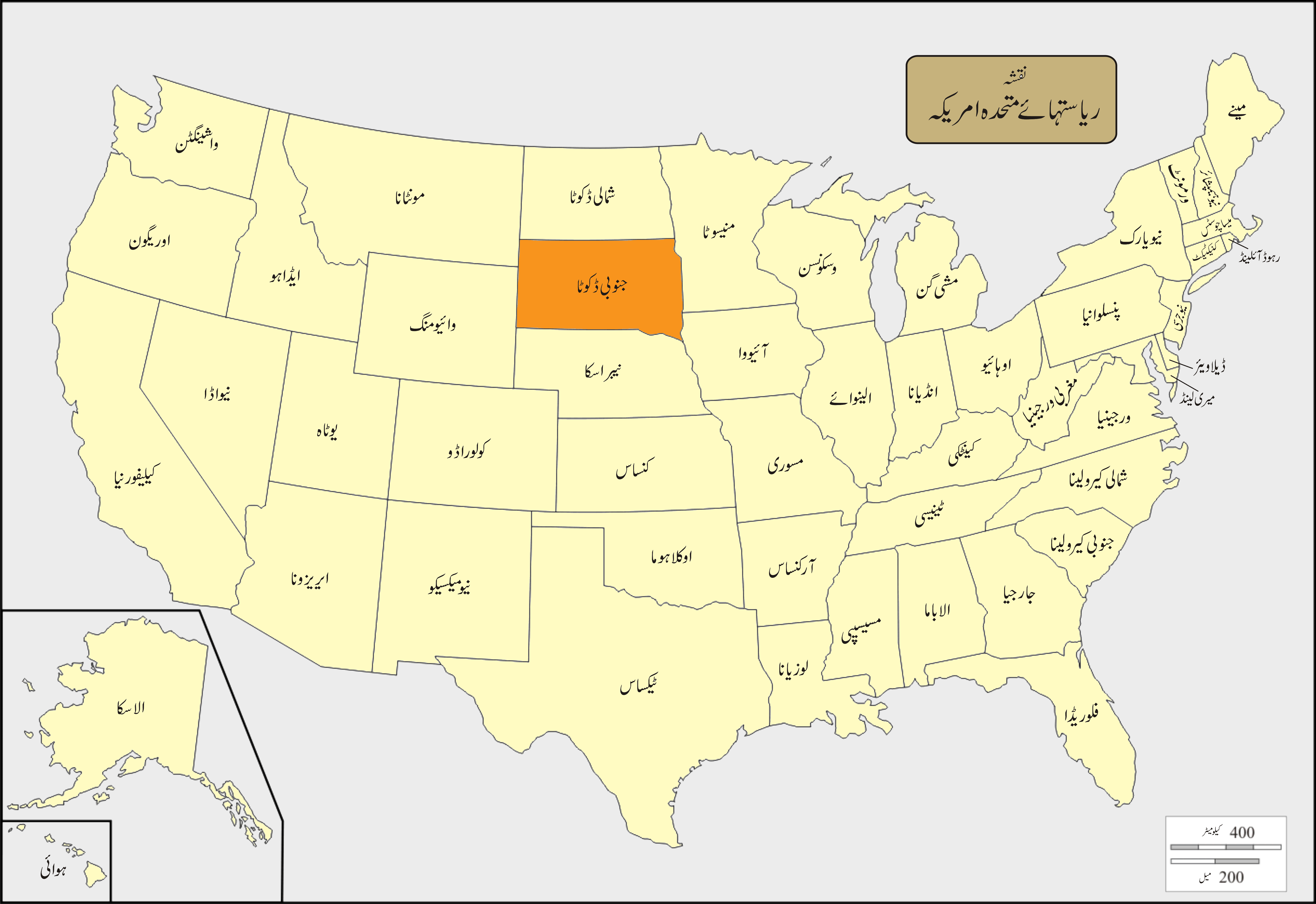 USA Names South Dakota